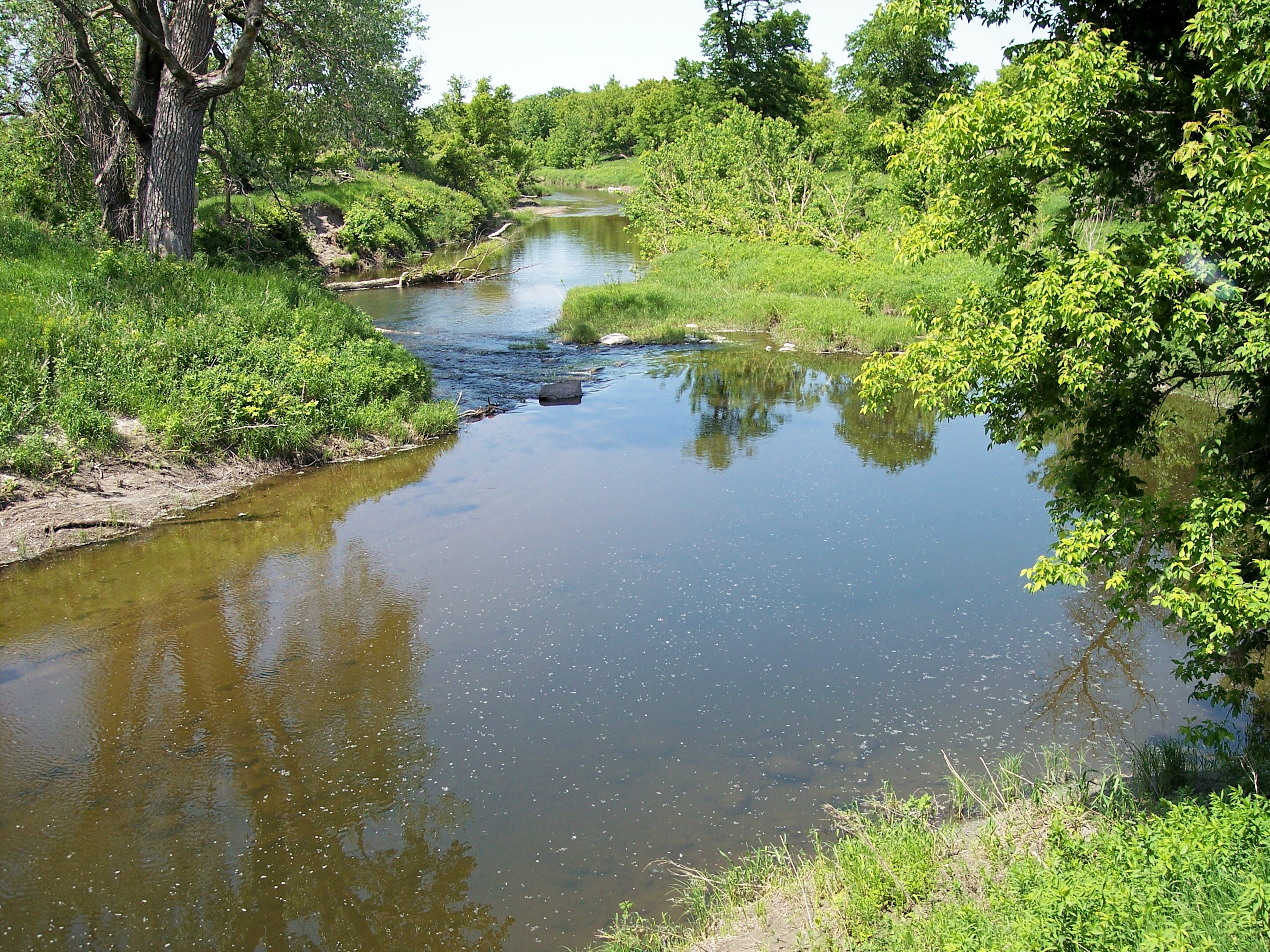 The Yellow Bank River as viewed downstream from County Road 40 in the Big Stone National Wildlife Refuge in Agassiz Township, Minnesota.